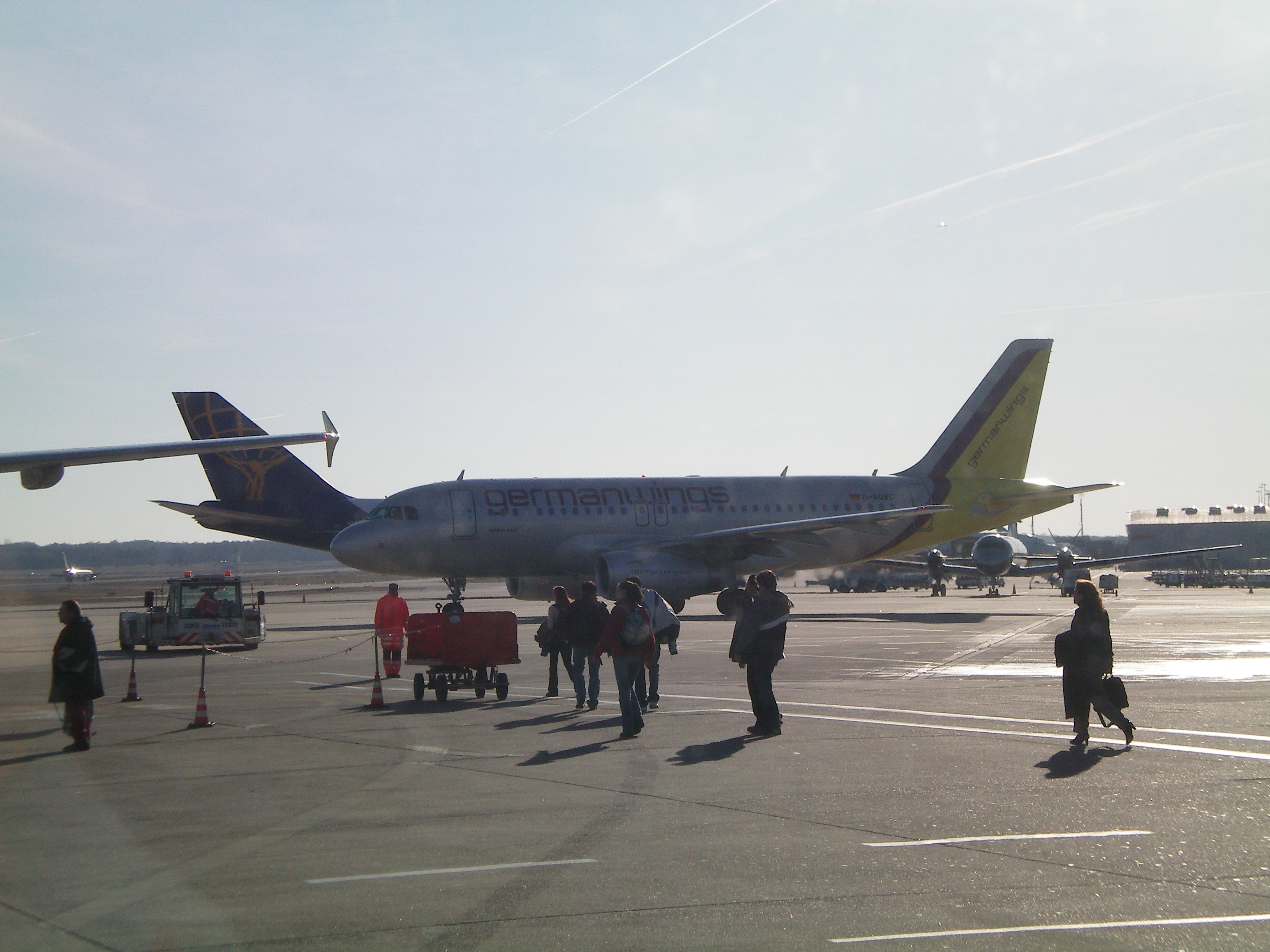 German Wings Airbus A319 aircraft (D-AGWC) at Cologne/Bonn Airport